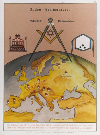 The text at the top reads: "World politics World revolution." The text at the bottom reads, "Freemasonry is an international organization beholden to Jewry with the political goal of establishing Jewish domination through world-wide revolution." The map, decorated with Masonic symbols (temple, square, and apron), shows where revolutions took place in Europe from the French Revolution in 1789 through the German Revolution in 1919.